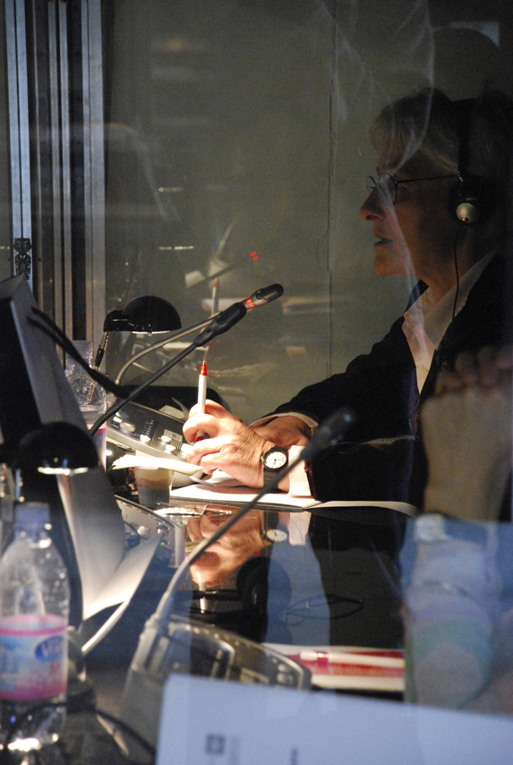 Interpreters during an international conference (Festival della Creatività, Florence, Italy - October 2008)